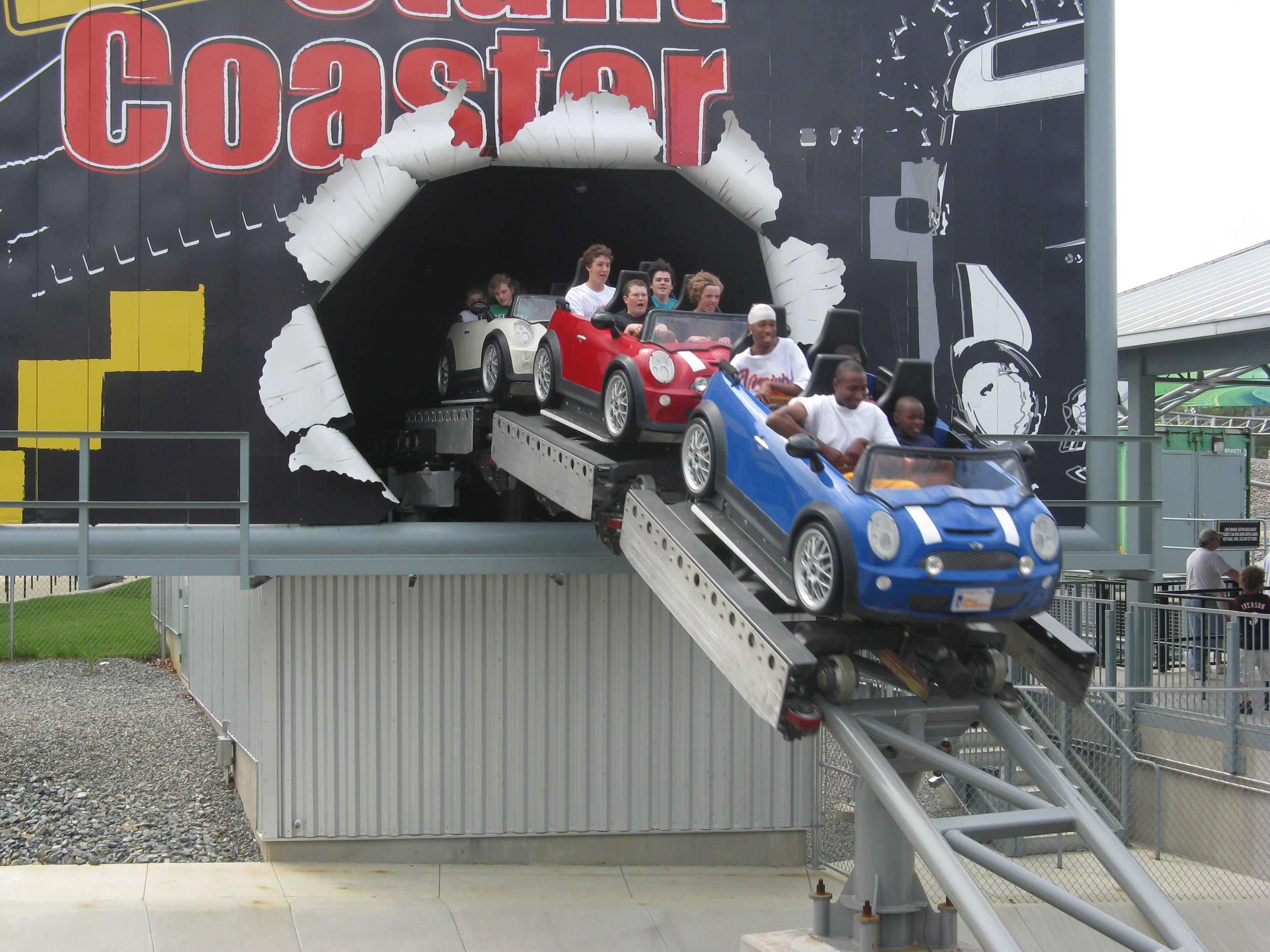 Backlot Stunt Coaster (Kings Dominion), formerly Italian Job Turbo Coaster at Kings Dominion